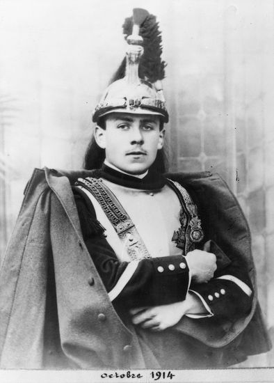 Louis Ferdinand Destouches known later as Céline